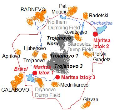 Map of the coal mining area Maritsa Iztok, Bulgaria.